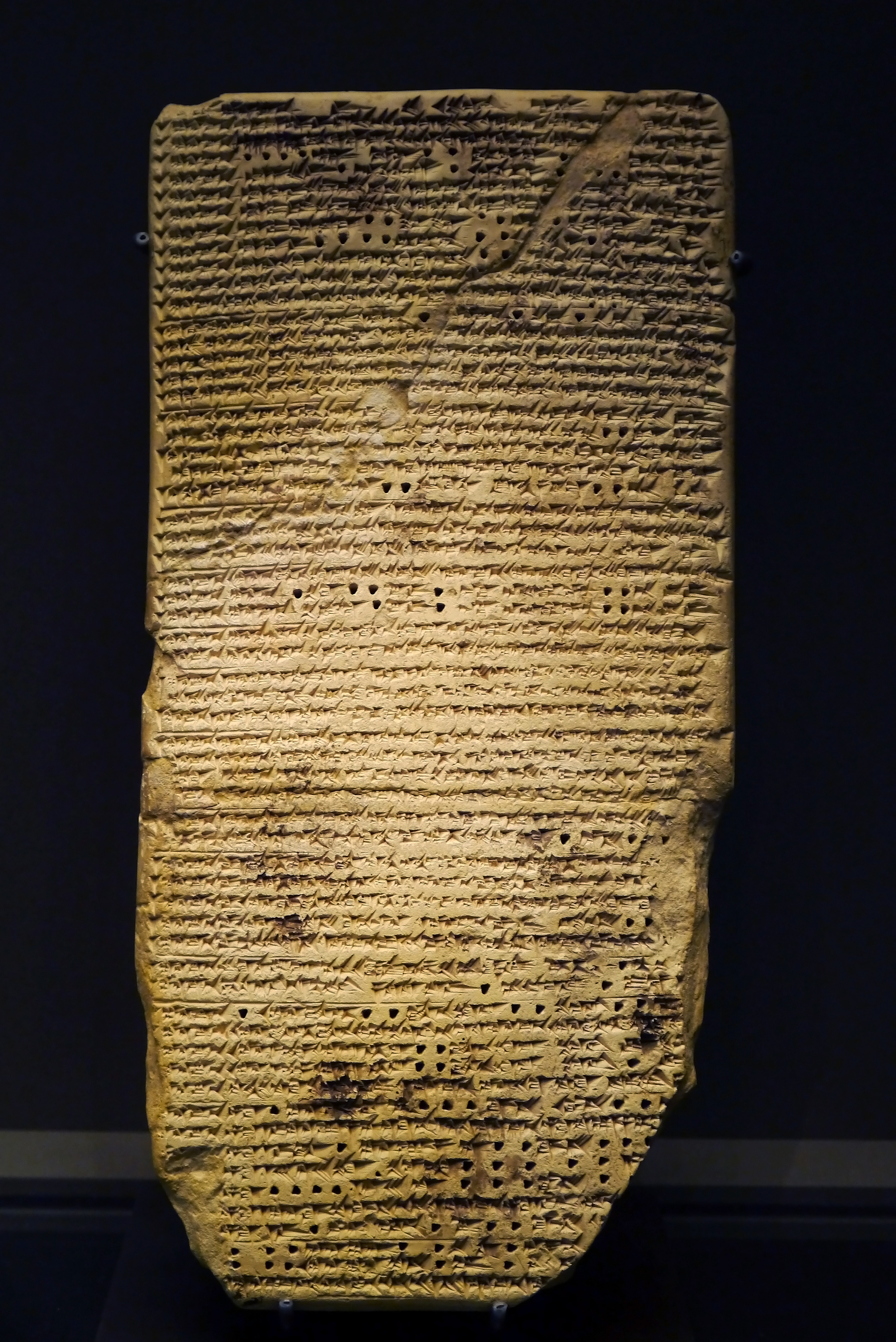 Excerpt from a babylonian astrology treatise. Terracotta, end of 1st millenium BC. From Warka, ancient Uruk.